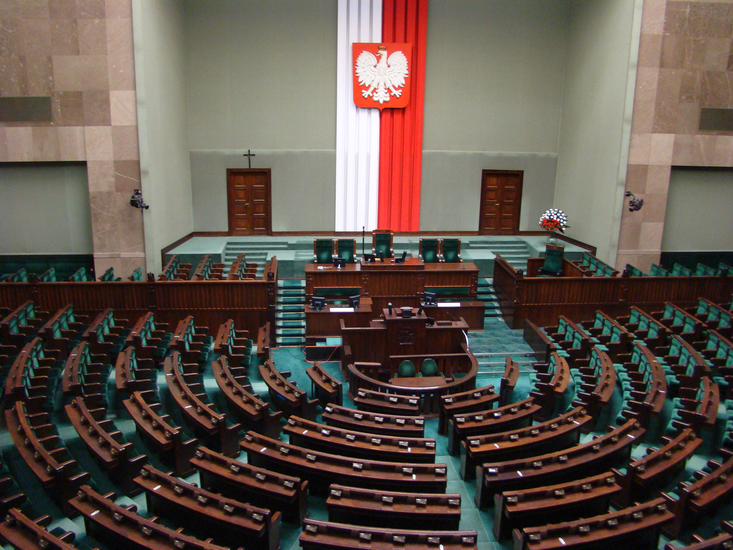 Sejm - Polish Parliament